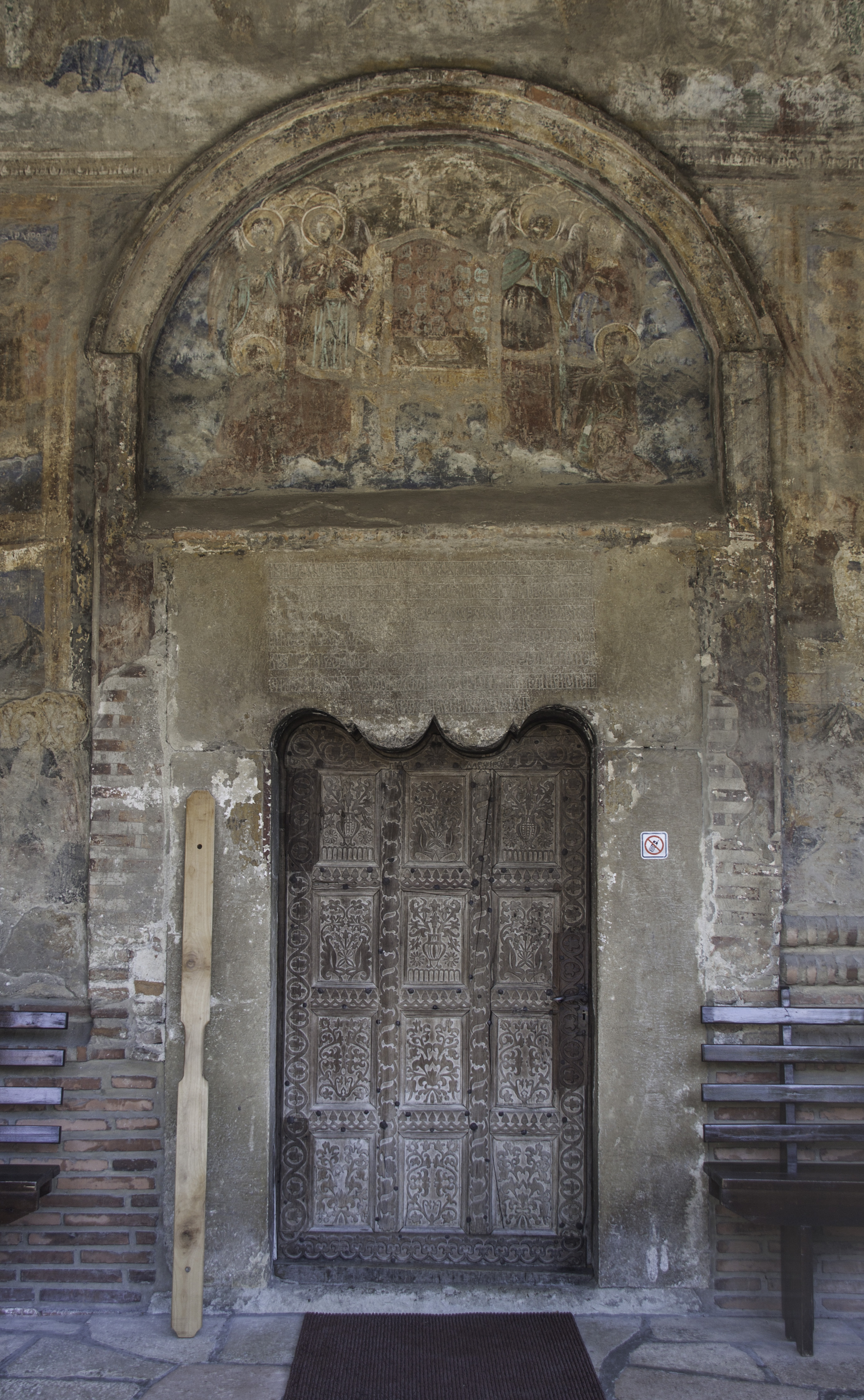 Strehaia Monastery, Mehedinți county, Romania: the stone portal with dedication from 1645.